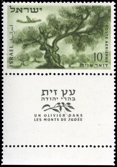 Airmail 1954 stamp- 10 mil, Second definitive series. Inscription on tab: "Olive tree in the mountains of Judah".